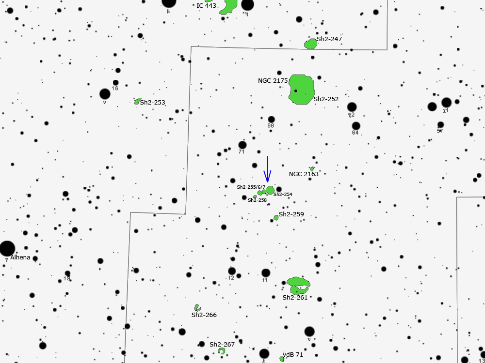 Map of Sh2-254 region